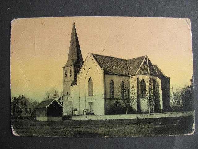 Old Church from Oosterbeek